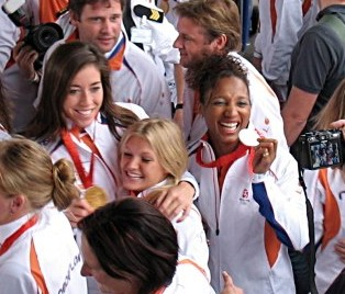 Grateful Olympians show their medals to a grateful press (Naomi van As, left, gold, hockey, and Deborah Gravenstijn, right). Photo by Branko Collin.